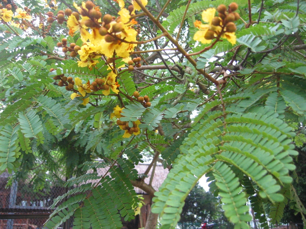 Leaves and flowers of Yellow flame (Peltophorum pterocarpum)